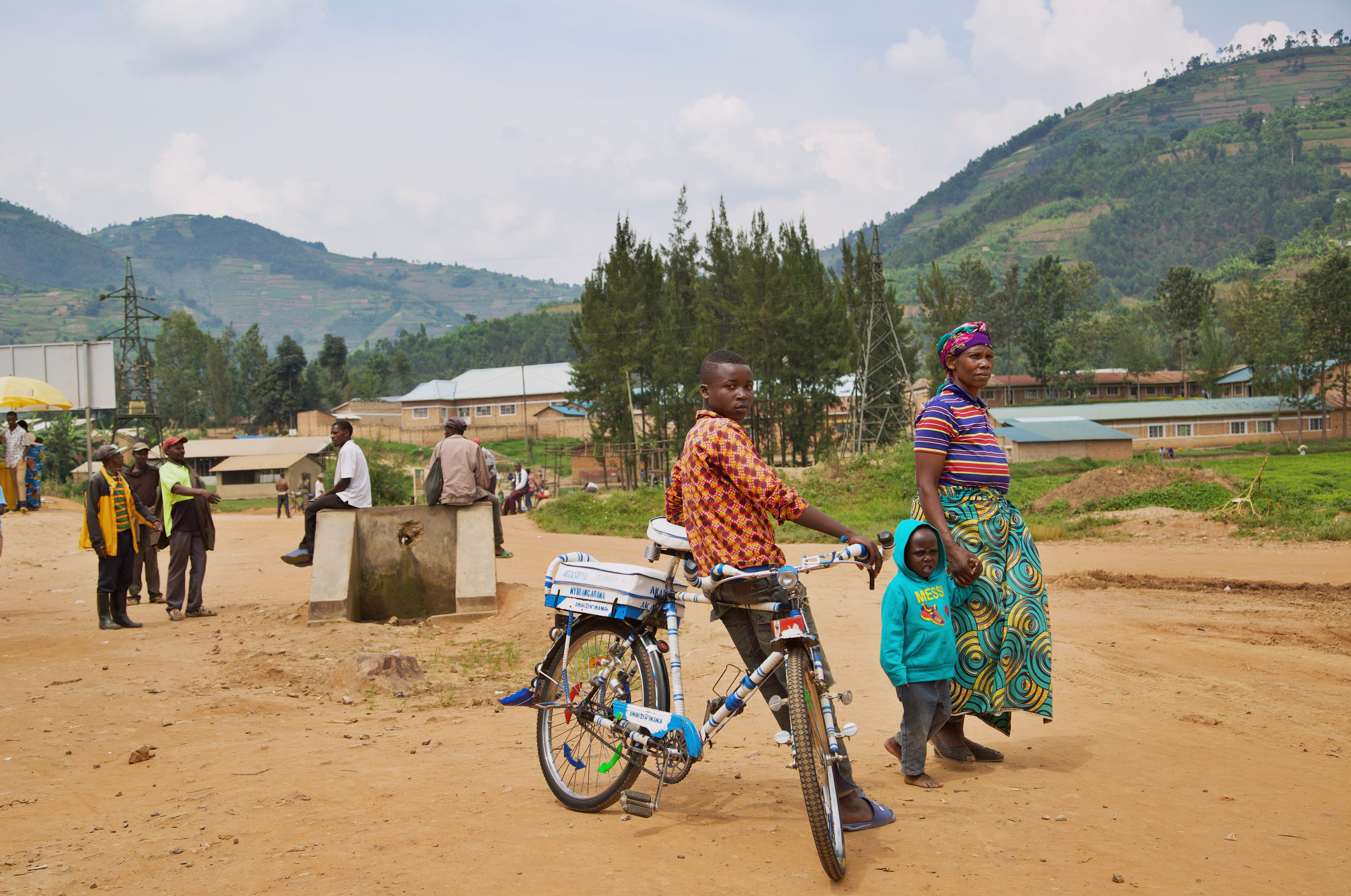 Bicycles are a commonly used taxi system in most of the Rwandan rural areas. Commonly known as “taxi-riders”, a portmanteau of taxi and bicycle riding; a rider decorates his bike and puts the piece of the couch on the passenger seat for the passengers' comfort. Here, it’s in Burera district, a mountainous district in the Northern part of the country. Daniel Ntakirutimana is an 18-year old “taxi-rider” who uses his bike to make money to support his mother and siblings. He is taking a rest, as he waits for passengers. An inspiring story behind this business of taxi-riding is that, due to the high physical forces that the riders use while they transport people and goods, it produced many Rwandan professional cyclists that competed and won titles in Tour du Rwanda and many cycling competition around the world. This is an image with the theme "Africa on the Move or Transport" from: Rwanda